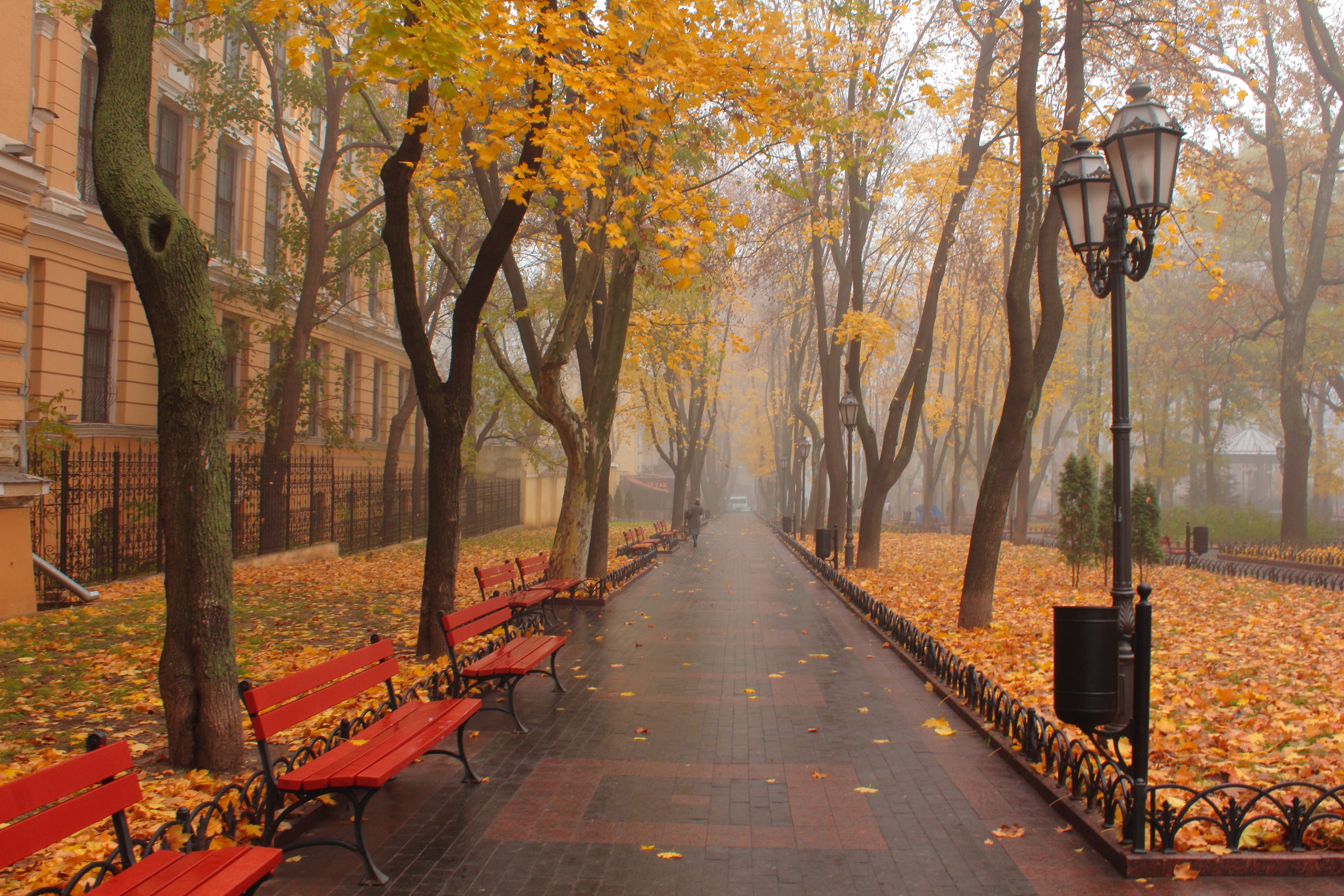 Odessa city garden